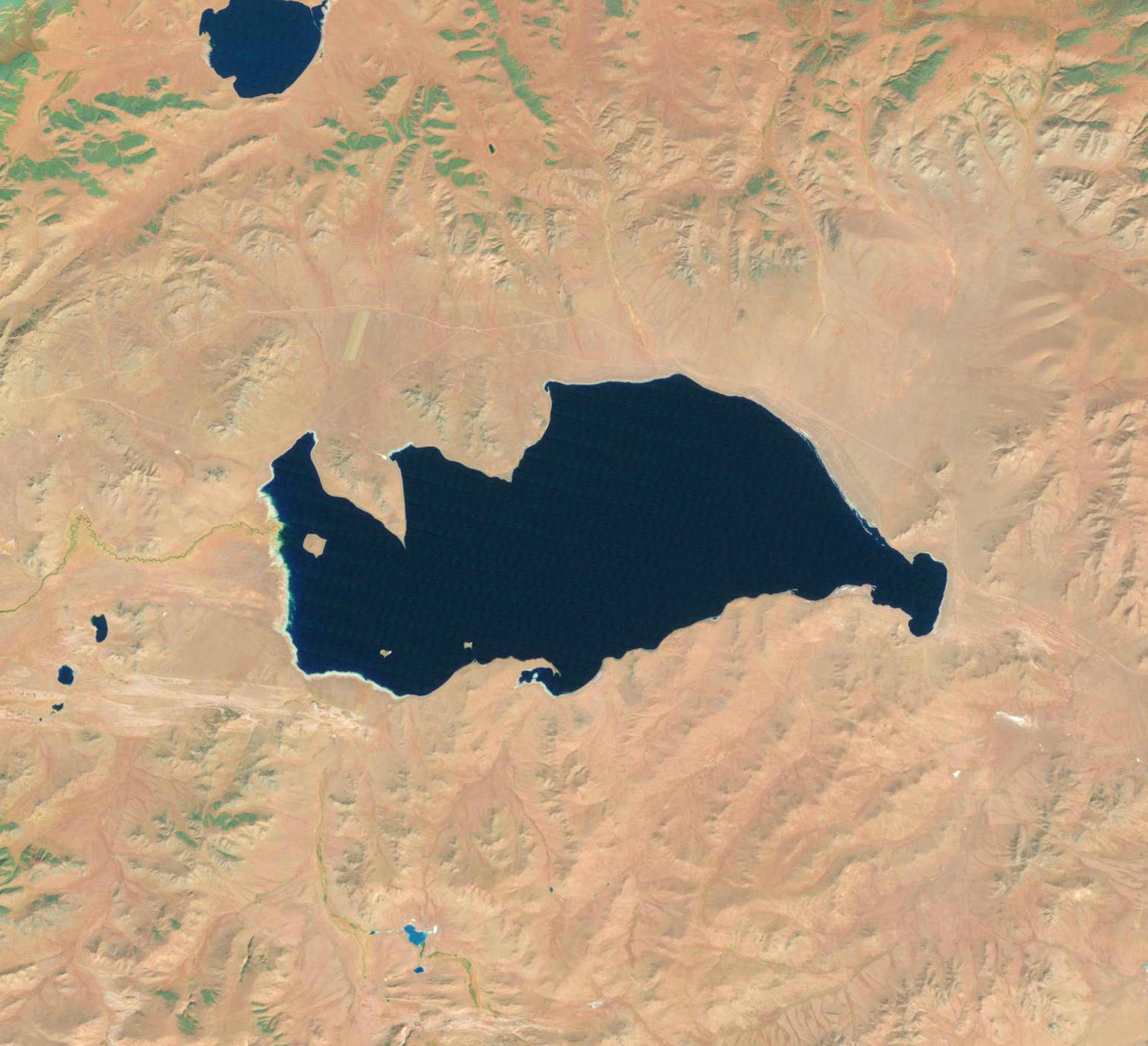 Telmen lake satellite view from Landsat